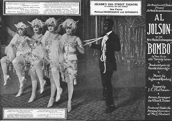 Flyer for the 1921 variety show Bombo starring Al Jolson